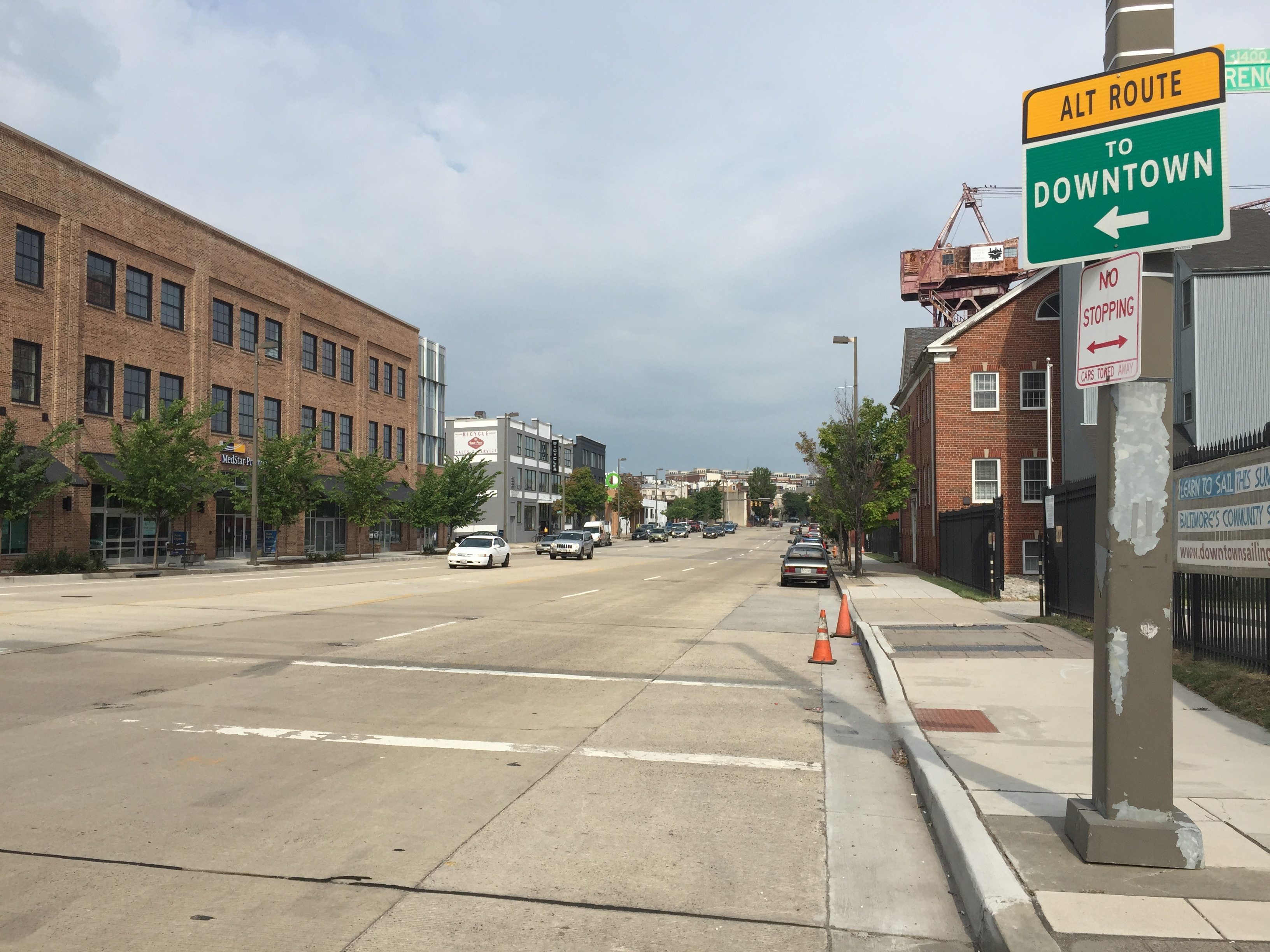 View north along Maryland State Route 2 Truck (Key Highway) at Lawrence Street in Baltimore City, Maryland